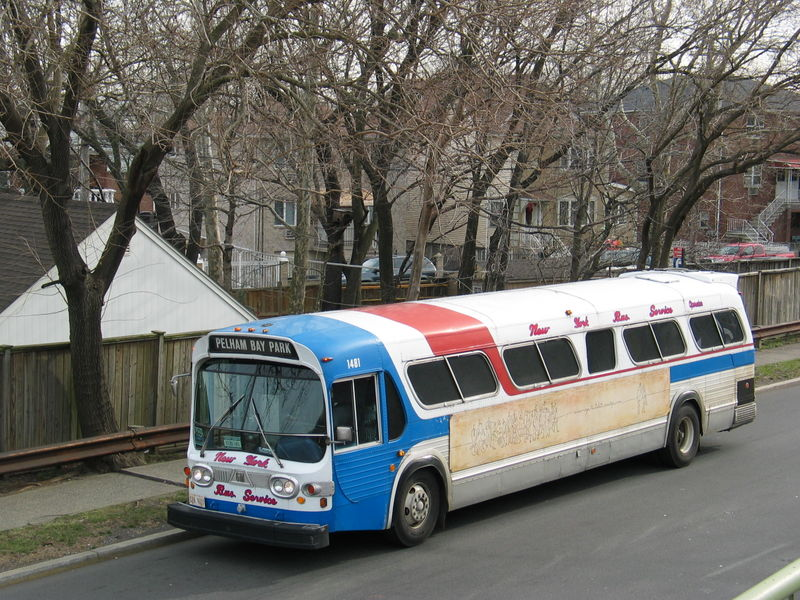 NYBS Fishbowl 1481 owned by Mark Wolodarsky and Michael Carrigy in Pelham Bay Park.